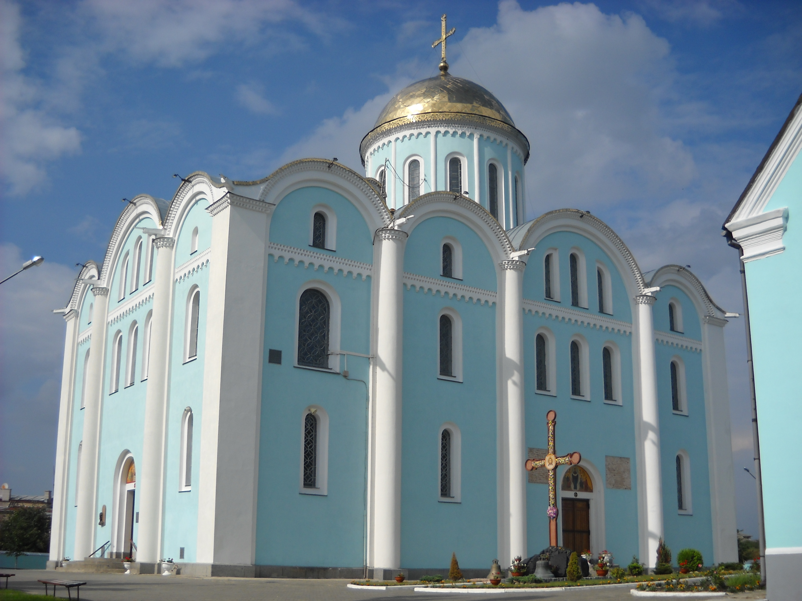 Orthodox cathedral of the Dormition in Volodymyr Volynsky